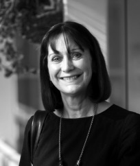 Portrait released in support of on-going improvement to Wikipedia articles, refer to